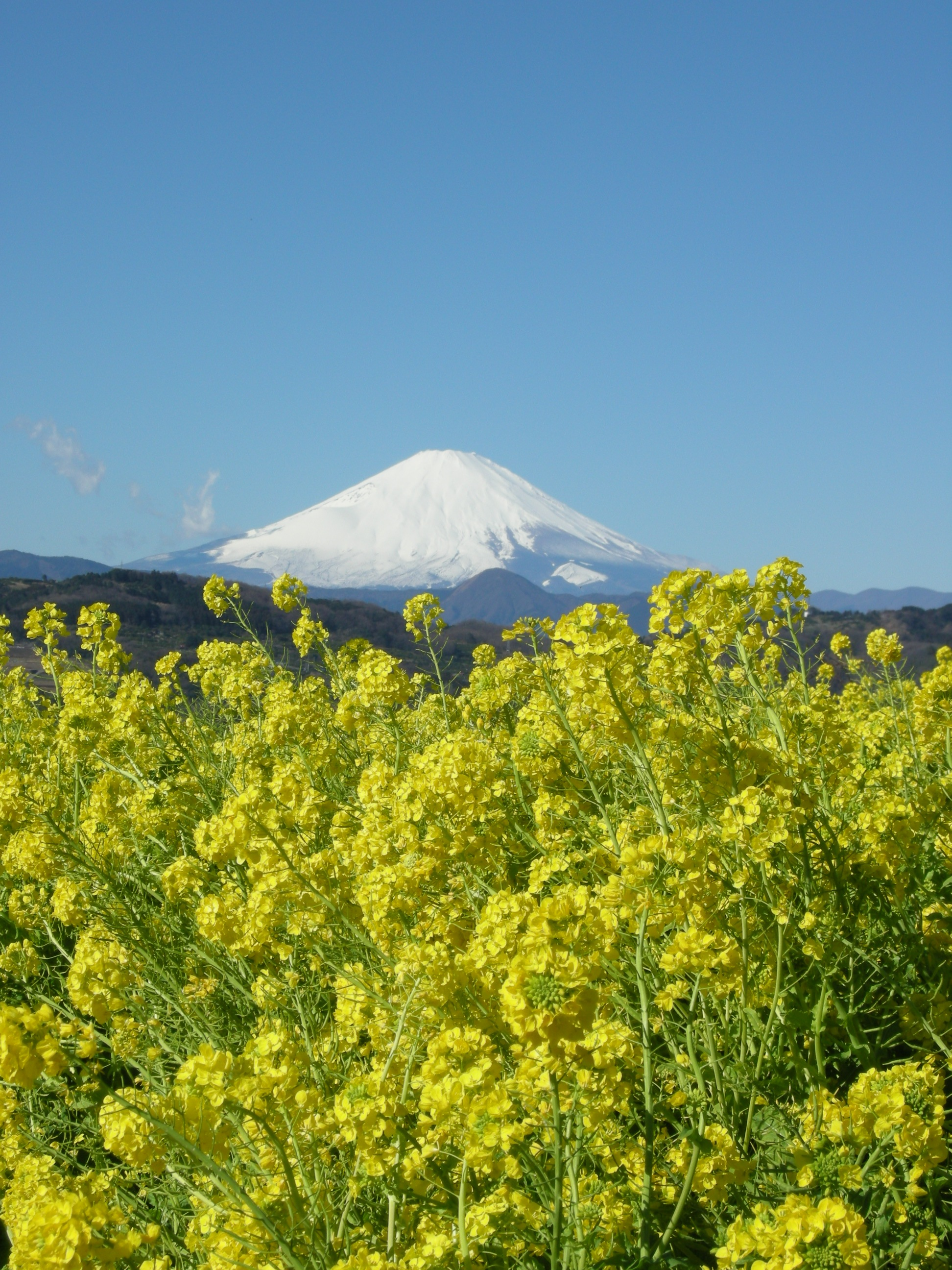 1/Feb/2009 Azumayamakoen at ninomiya-machi kanagawa-pref. It took a picture Mt.Fuji&nanohana from the observatory in azumayamakoen.